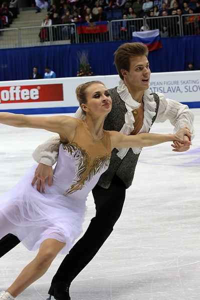 Nikita Katsalapov and Victoria Sinitsina at the 2016 European Figure Skating Championships.